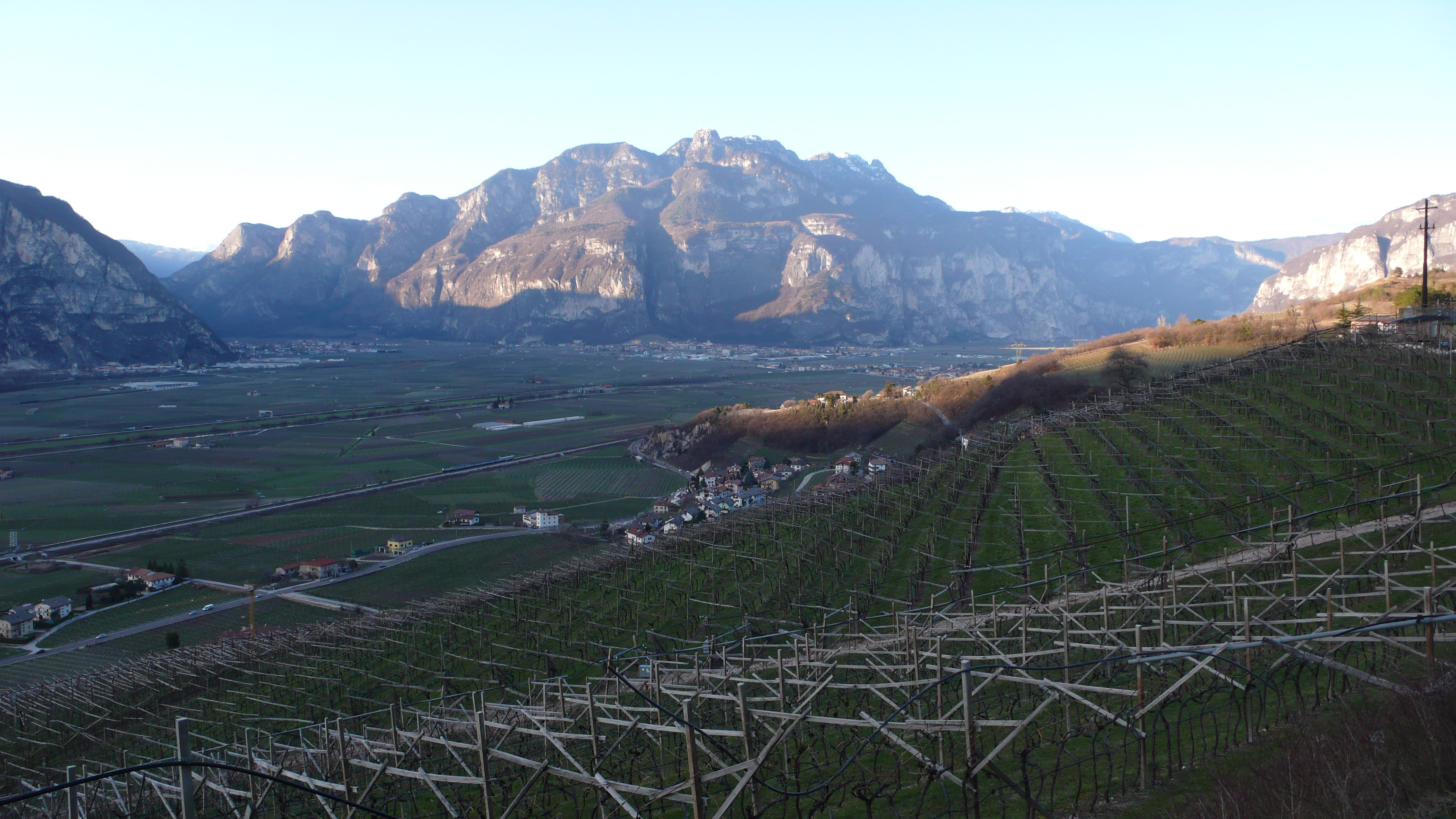 View on the Rotaliana plane.